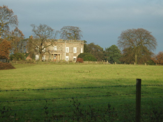 Birtles Hall. From Birtles Lane, looking north.